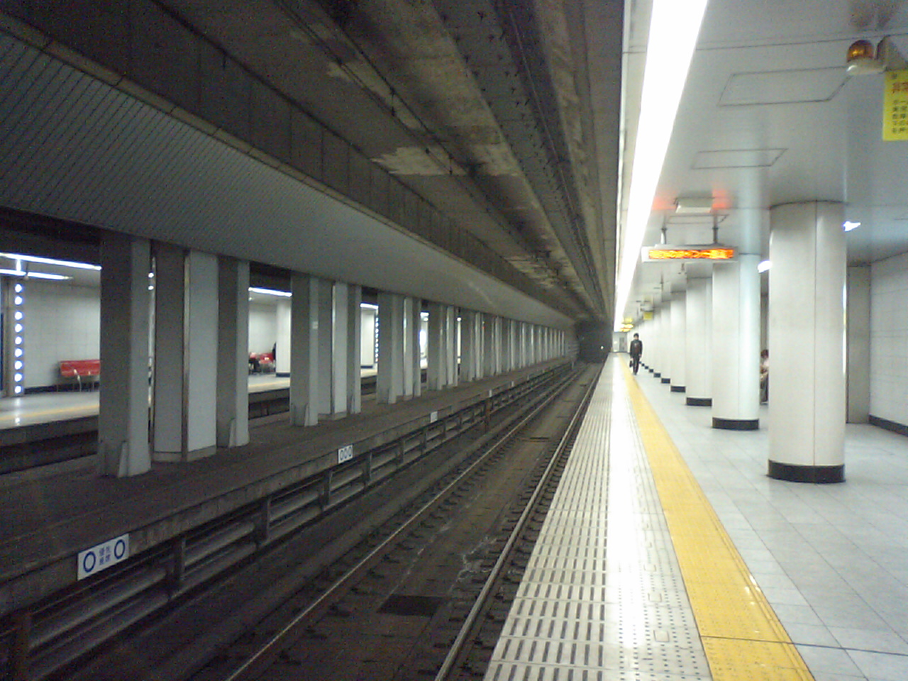 platform of Hanshin railway Kasuganimichi station.